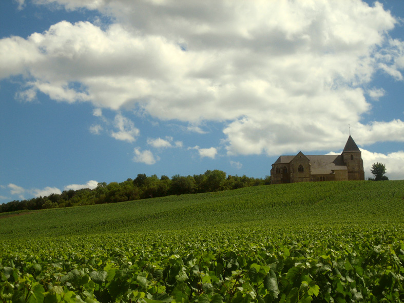 A church, Église Saint-Martin de Chavot, amongst the vines in the Champagne-growing region of France. (In the Chavot-Courcourt commune, close by Pierry, outside of Épernay).